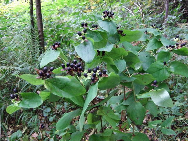 Tutsan berries Hypericum androsaemum is a member of the St John's Wort family. Its shiny, black, ripe berries look sinister but the plant's name means 'all-heal' and it was highly regarded by early herbalists. The leaves are supposed to smell of tobacco or amber and were used as bookmarks in bibles. It is locally common in damp shady valleys in the South and West: growing here beside the Afon Gwaun.